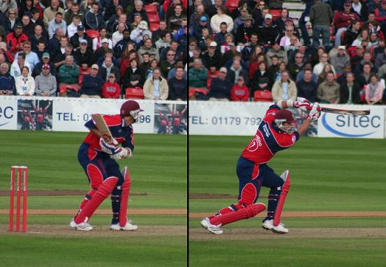 Image of a Somerset CCC player playing through a drive|, June 27 2007 Image of a Somerset CCC player playing through a drive, June 27 2007